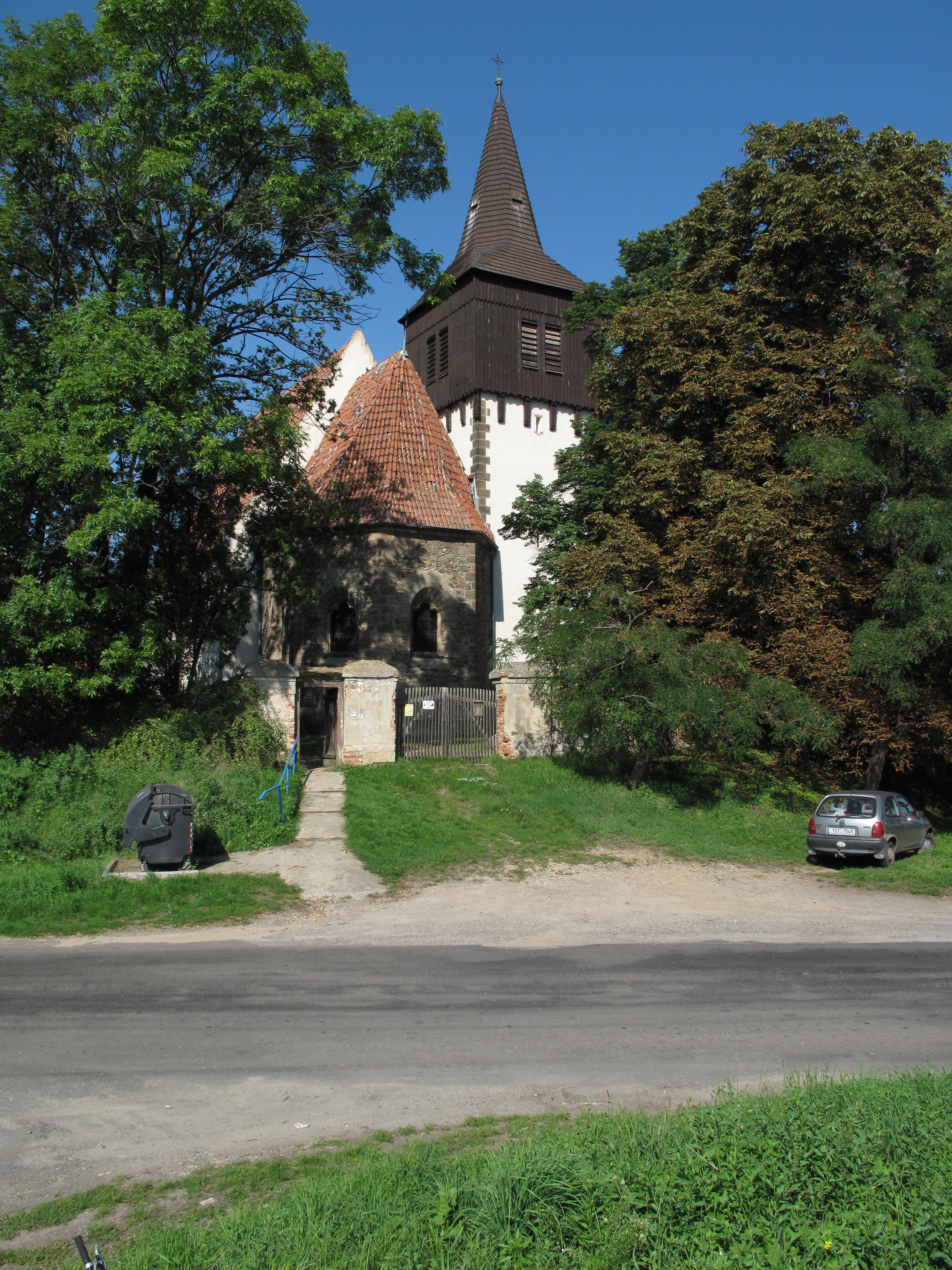 Church of the Beheading of Saint John the Baptist in Srkamníky village, Kolín District, Czech Republic.